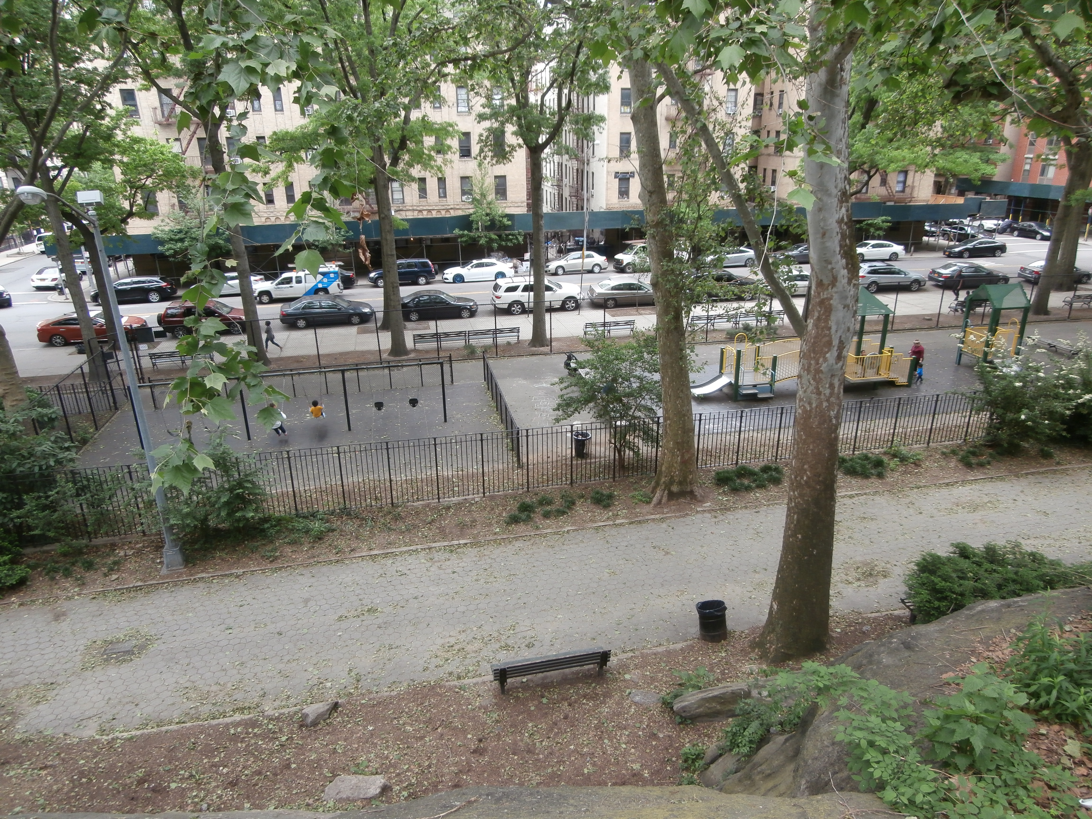 A playground in Jackie Robinson Park